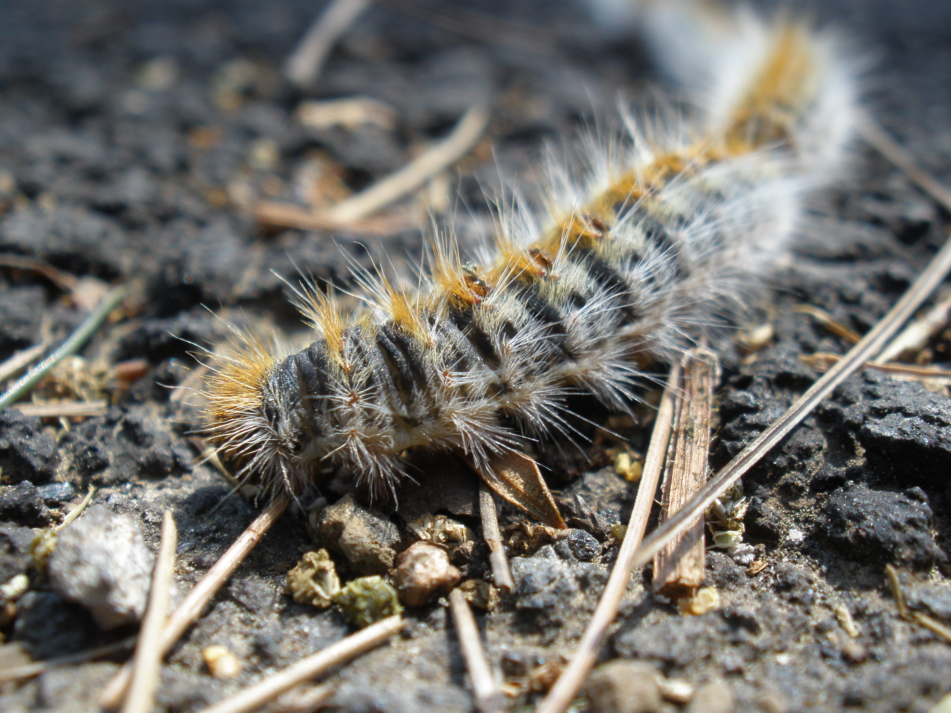 Larva of pine processionary (Thaumetopoea pityocampa).